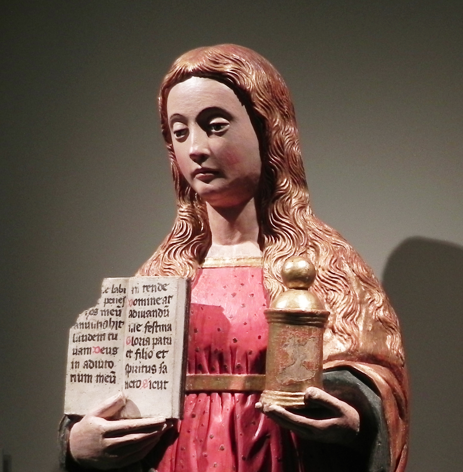 Pietro Bussolo "St Magdalene" Polychrome wood - XVIsec. Corpus Domini Church, Pargliaro (BG - Italy)